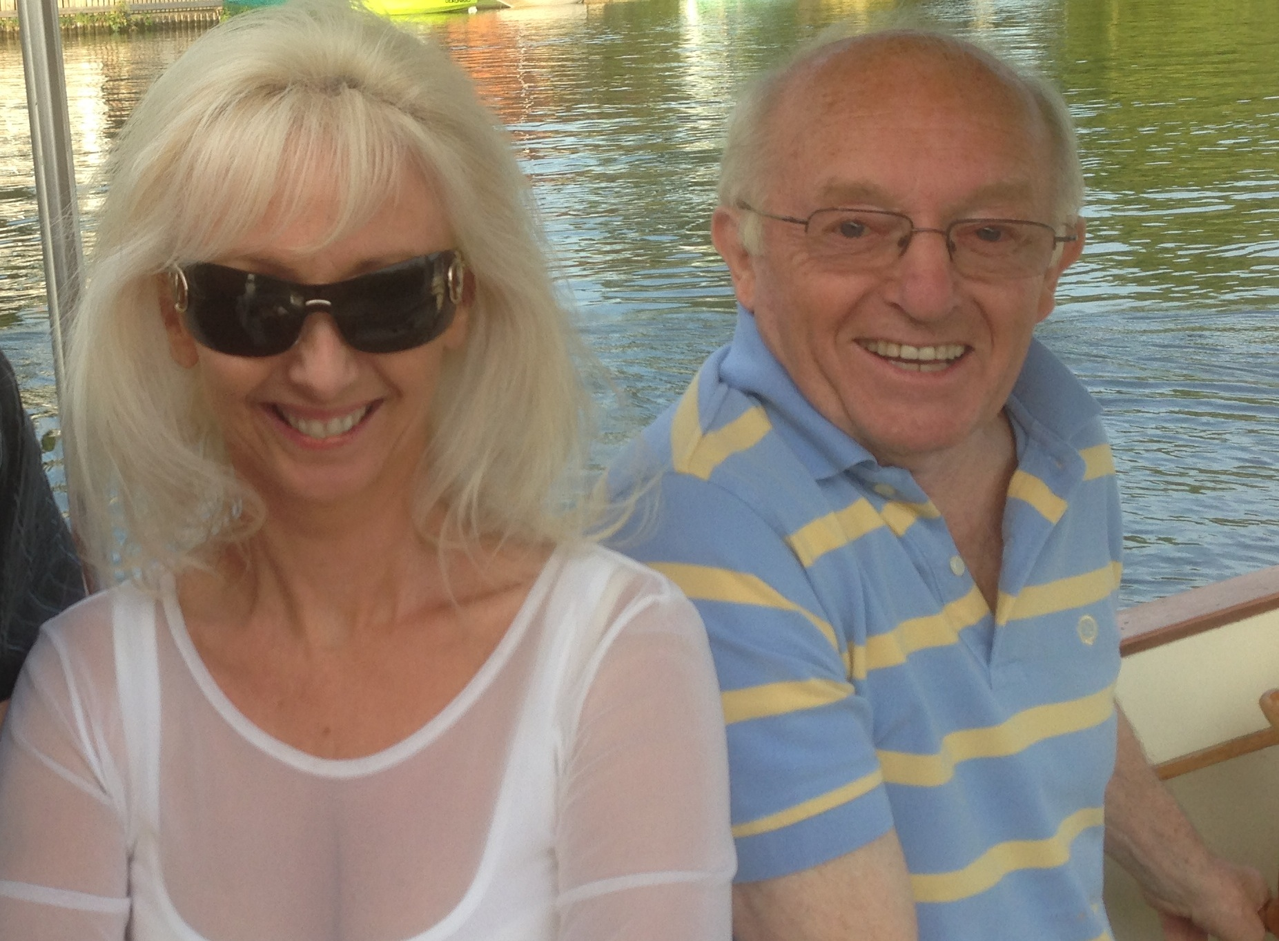 Taken during Dead Air Podcast interview (Nick Lee & Rob Oldfield)